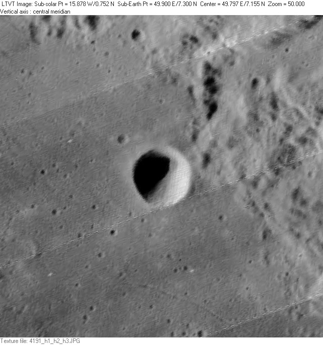 Asada crater on the Lunar Orbiter IV image